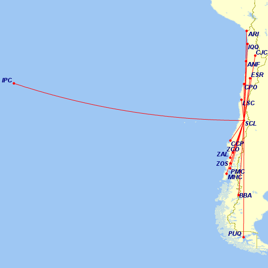 Santiago International Airport domestic nonstop routes (as of July 2015).